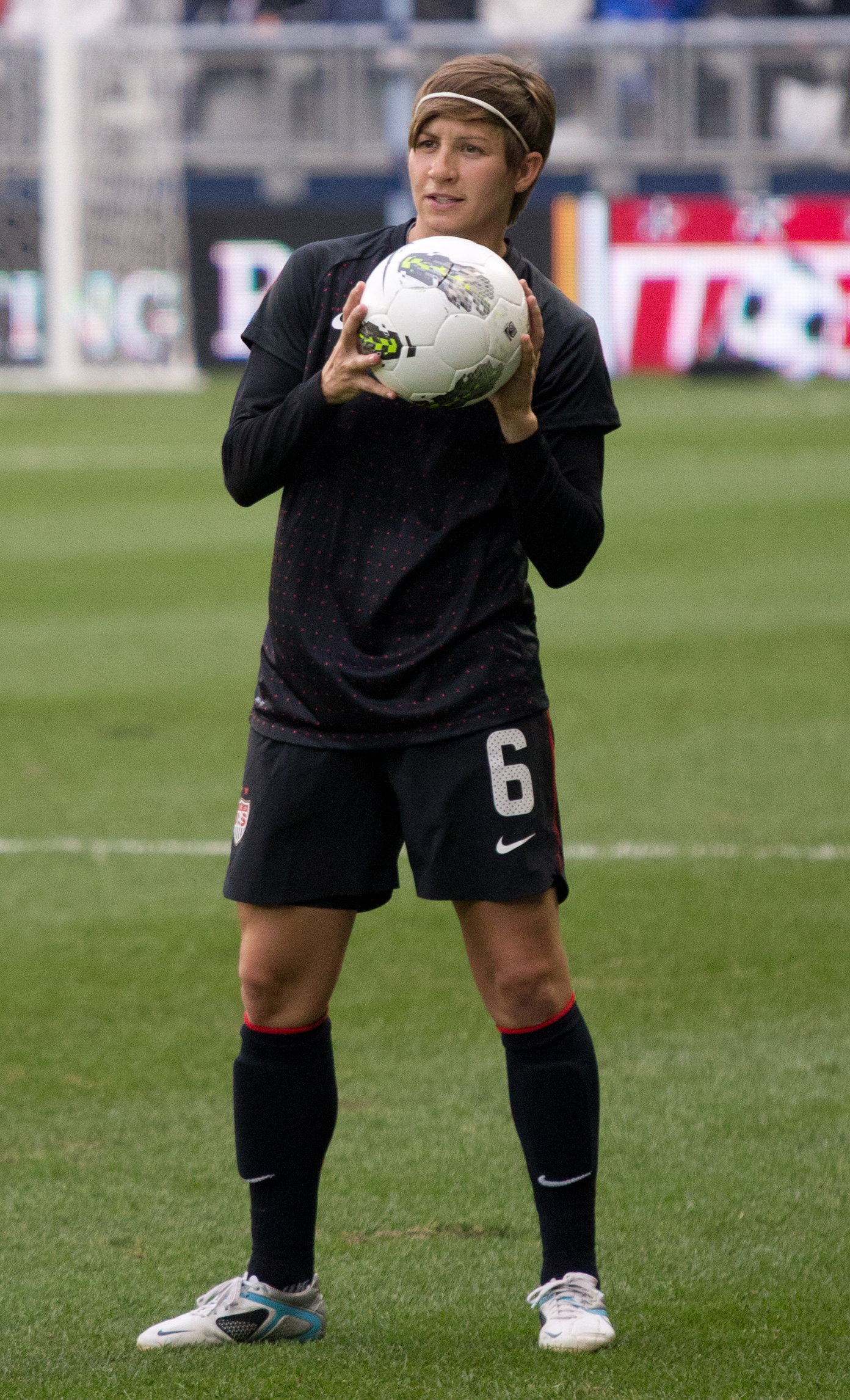 Amy LePeilbet of the United States Women's National Soccer team warming up prior to a friendly match against Canada on September 17th, 2011.